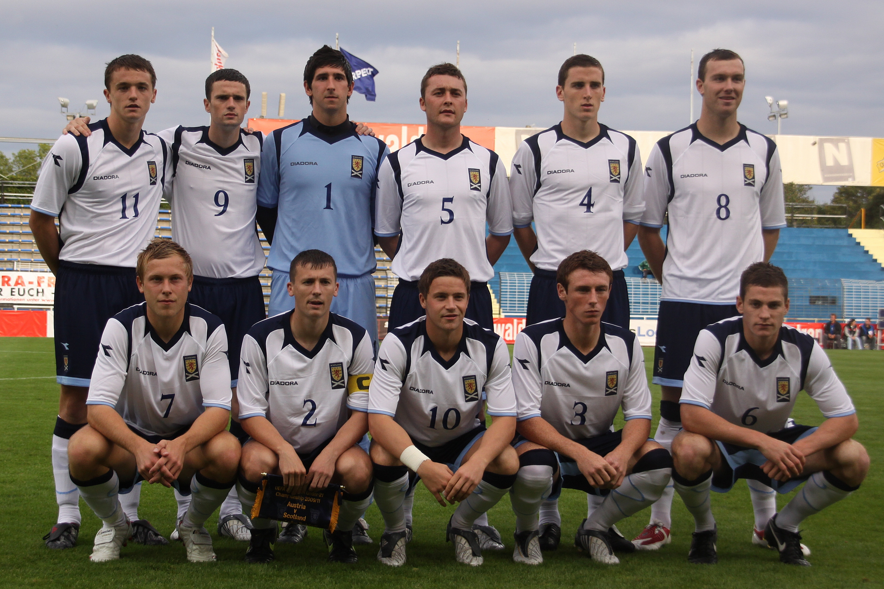 Schottische U-21-Fußballnationalmannschaft — 1. Reihe: Scott Arfield, Paul Caddis (Kapitän), Christopher Maguire, Christopher Mitchell, Paul Scotts - 2. Reihe: Stephen McGinn, Jamie Murphy, Alan Martin, Thomas Scobbie, Paul Hanlon, Kevin McDonald (jeweils von links nach rechts). Scotland national under-21 football team — 1st row: Scott Arfield, Paul Caddis (Captain), Christopher Maguire, Christopher Mitchell, Paul Scotts – 2nd row: Stephen McGinn, Jamie Murphy, Alan Martin, Thomas Scobbie, Paul Hanlon, Kevin McDonald (each from left to right)